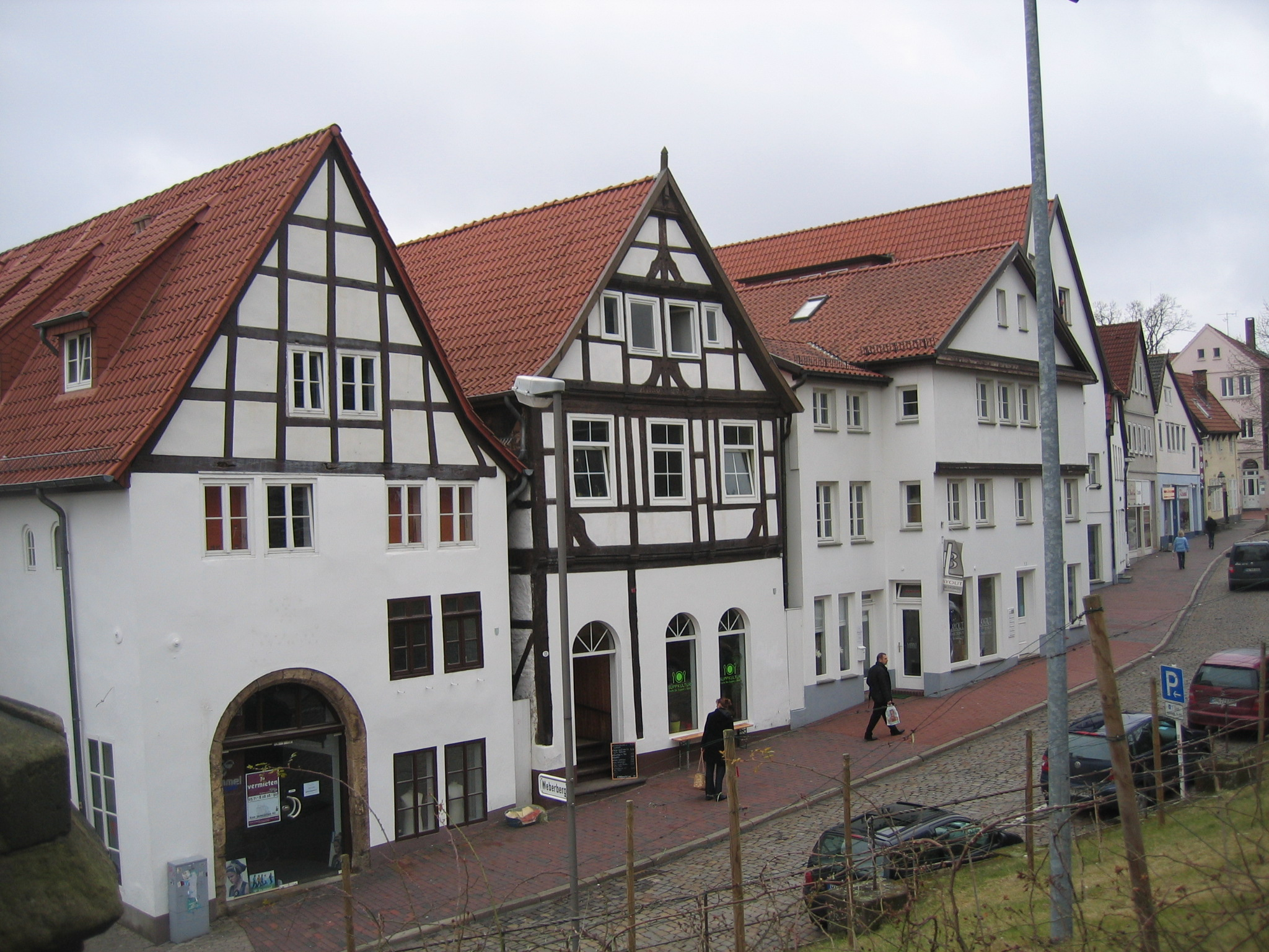 Houses near St. Marien in Minden, Minden-Lübbecke, North Rhine-Westphalia, Germany.